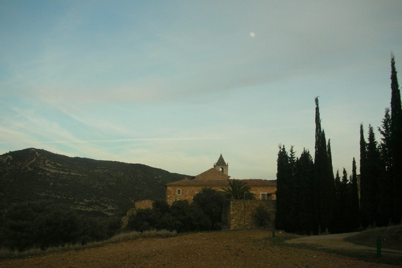 Convent de Benifassà. A monastery close to la Pobla de Benifassà